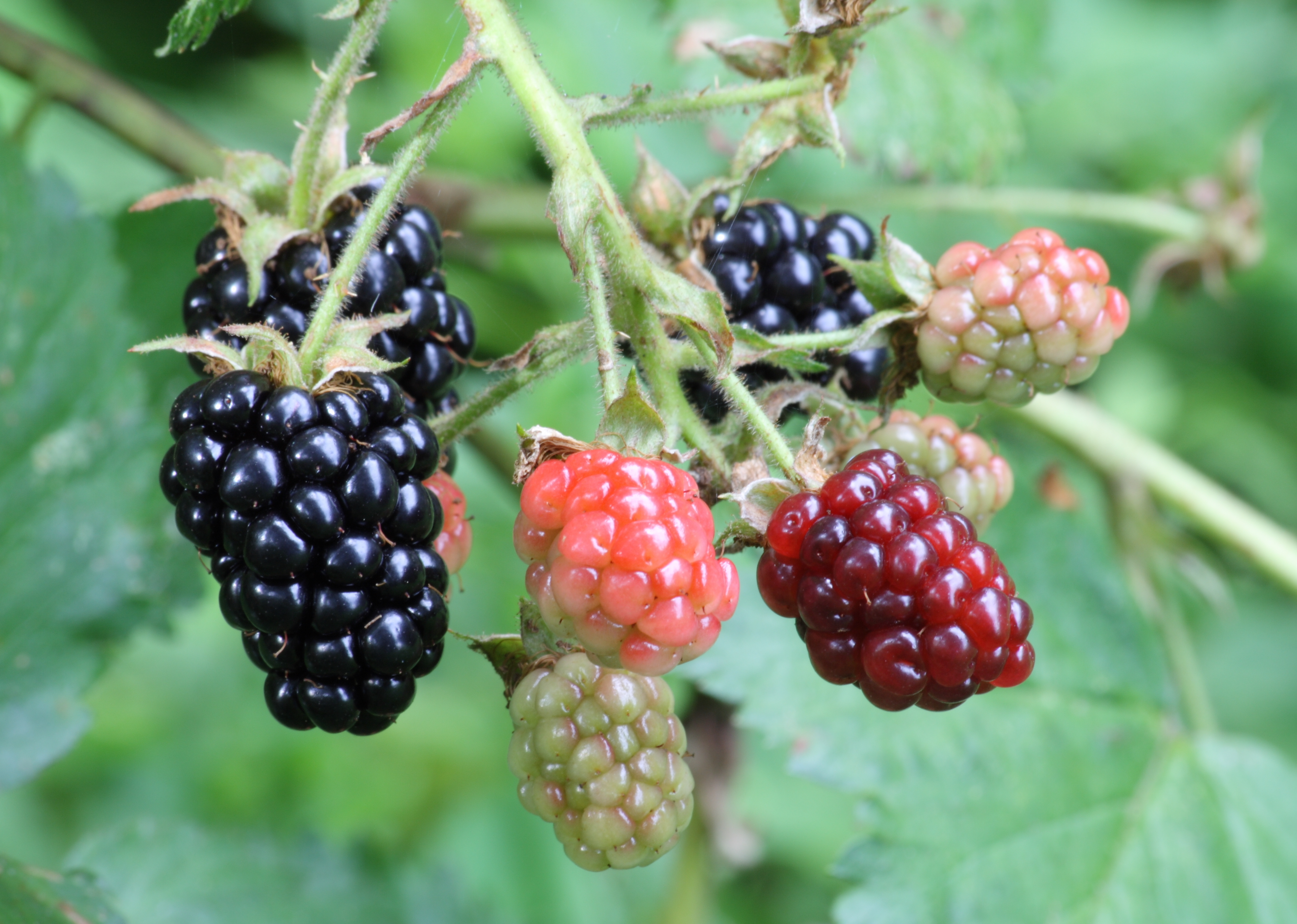 Blackberries in a range of ripeness, in West Hartford, Connecticut